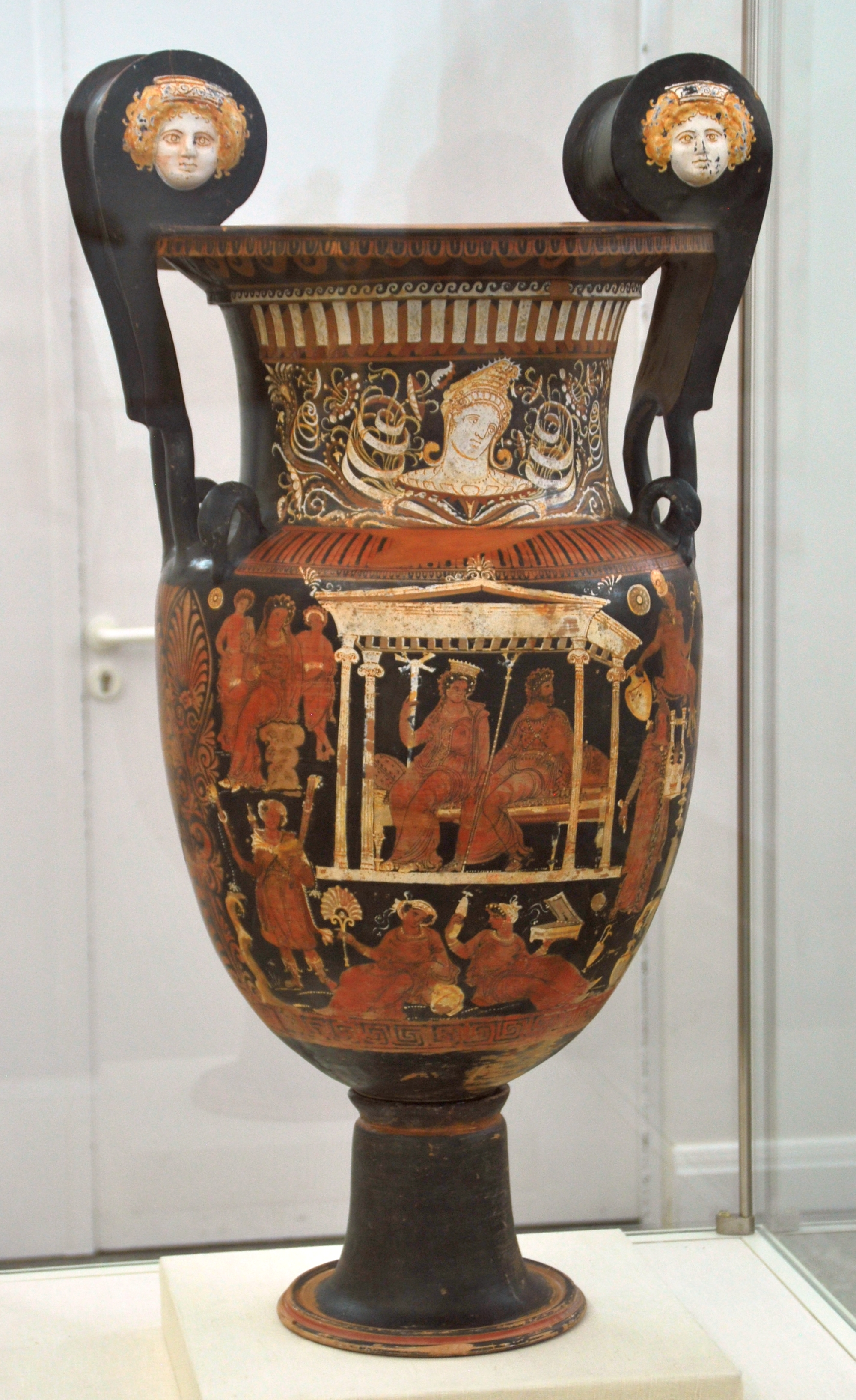 Apulian red-figure volute krater-with representation of the underworld scenes: Side A) Hades and Persephone seated in the palace, outside the left is the wife of Heracles, Megara, with her two sons, including a woman with a torch, possibly Hecate, on the right sitting Hermes with a hydria, including Orpheus with a kithara, under the palace are depicted two Danaids Side B) Three women and a naked youth on a grave stele around 320 BC, attributed to the White Sakkos Painter; Antikensammlung Kiel, inventory number B 585.